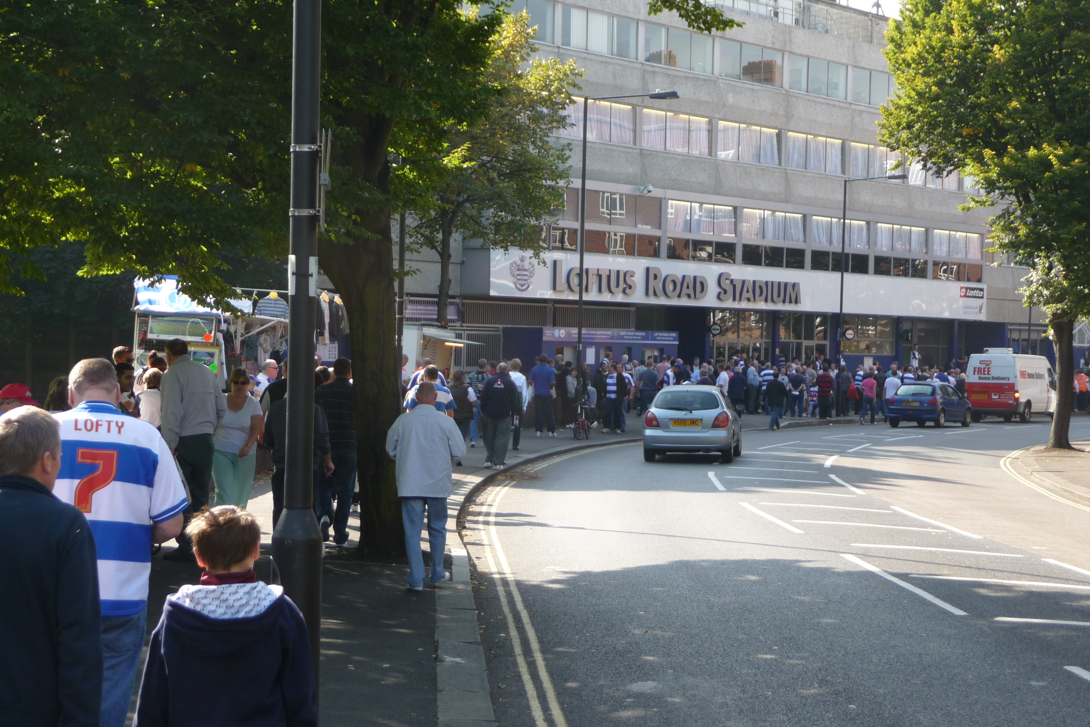 The road leading to Loftus Road Stadium, west London.